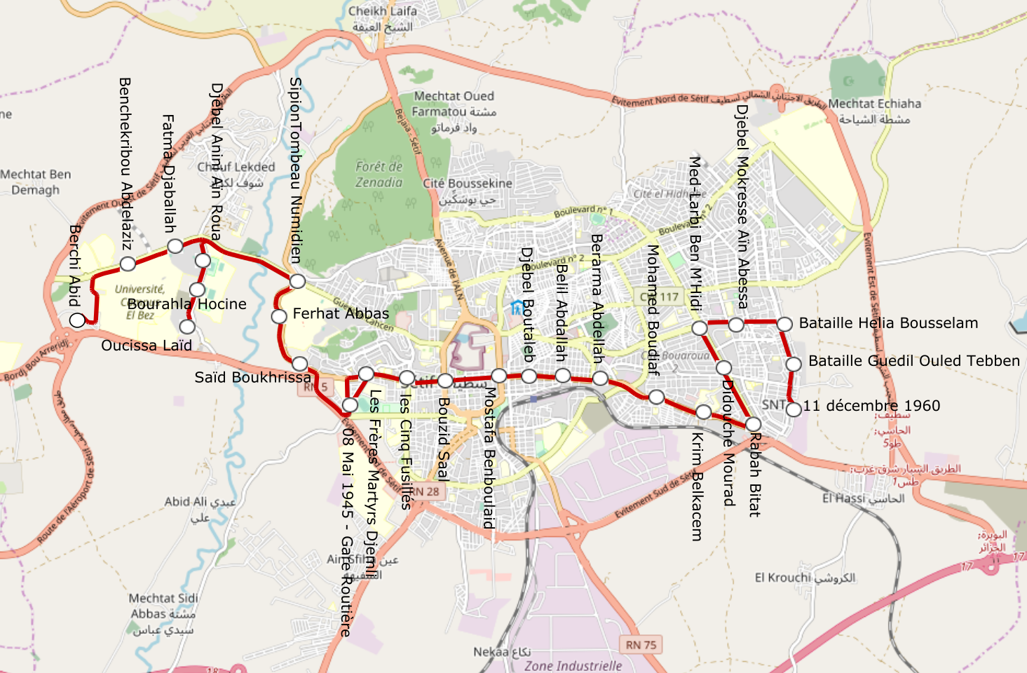 Tramway system of Sétif, Algeria from OSM data and my own Inkscape drawing